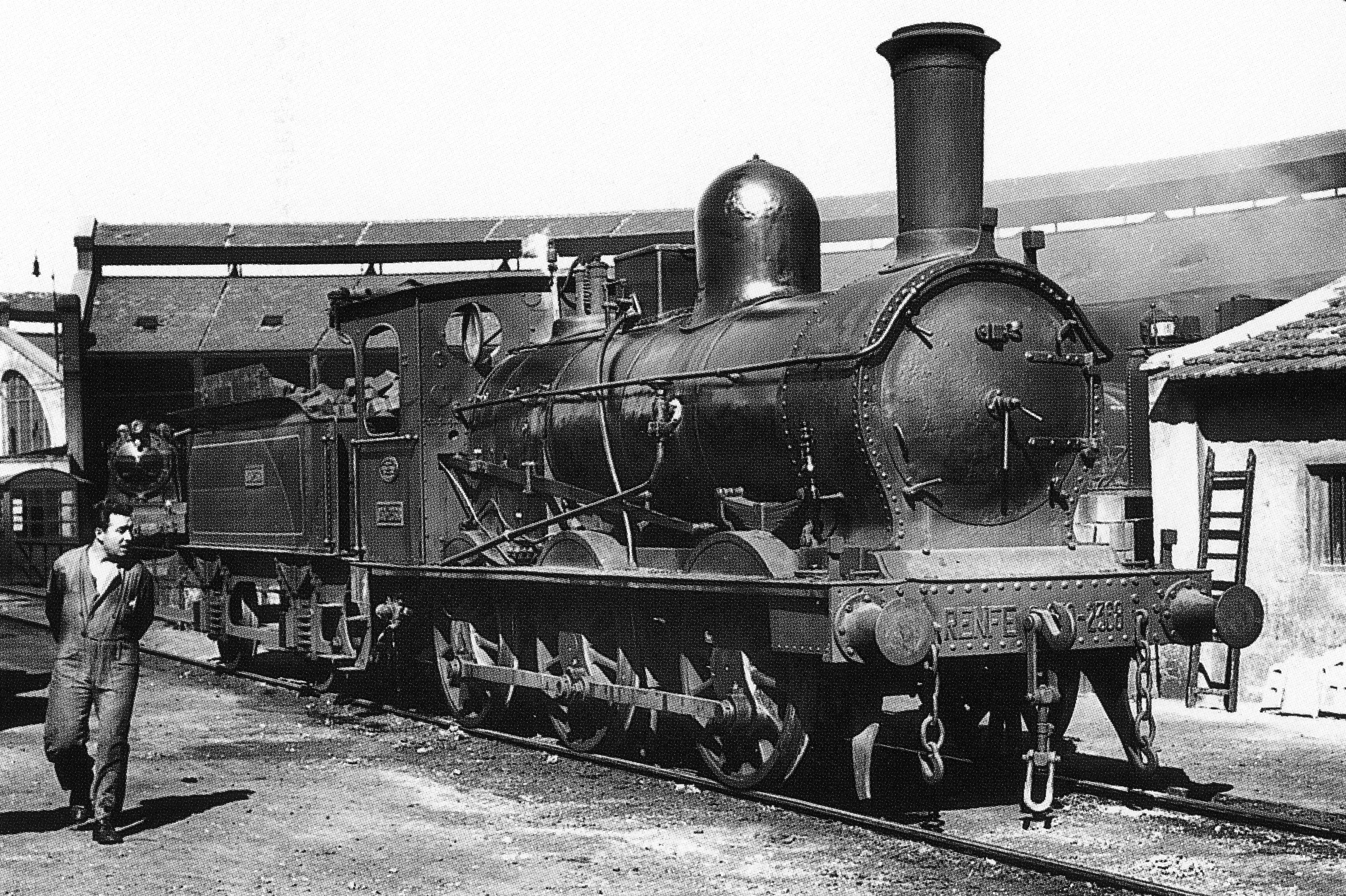 Locomotora de Vapor 030-2369